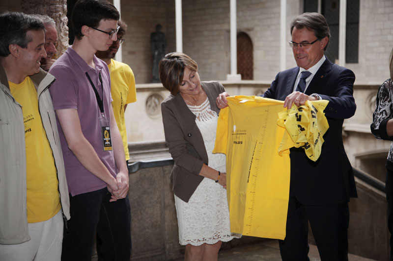 2013 Institutional event of the National Day of Catalonia - Samarreta de la Via Catalana entregada per Carme Forcadell a Artur Mas